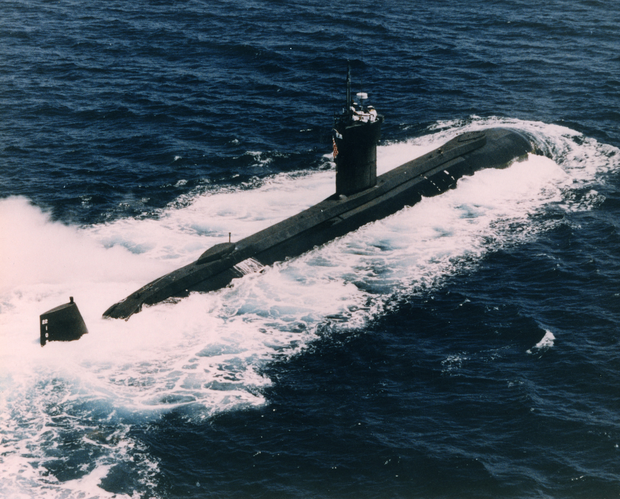 USS Dolphin (AGSS 555) -- The auxiliary research submarine USS Dolphin reported fire and flooding at 11:30 PM (PDT) Tuesday, May 21st. The entire crew was forced to evacuate the ship. The Dolphin was operating approximately 100 miles off the coast of San Diego. U.S. Navy file photo. (RELEASED)